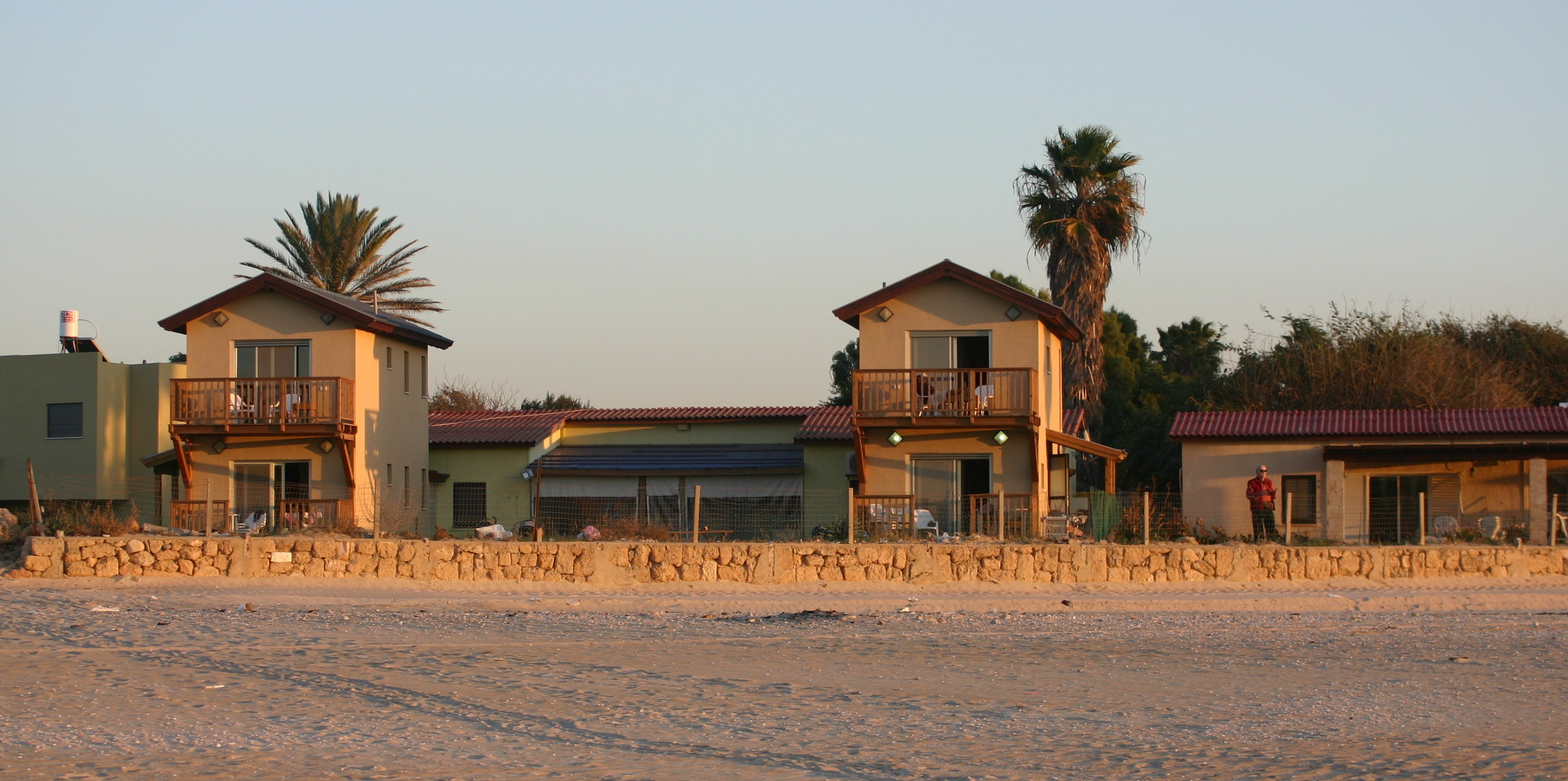 Houses in Kibutz Nachsholim, Coast of Israel.